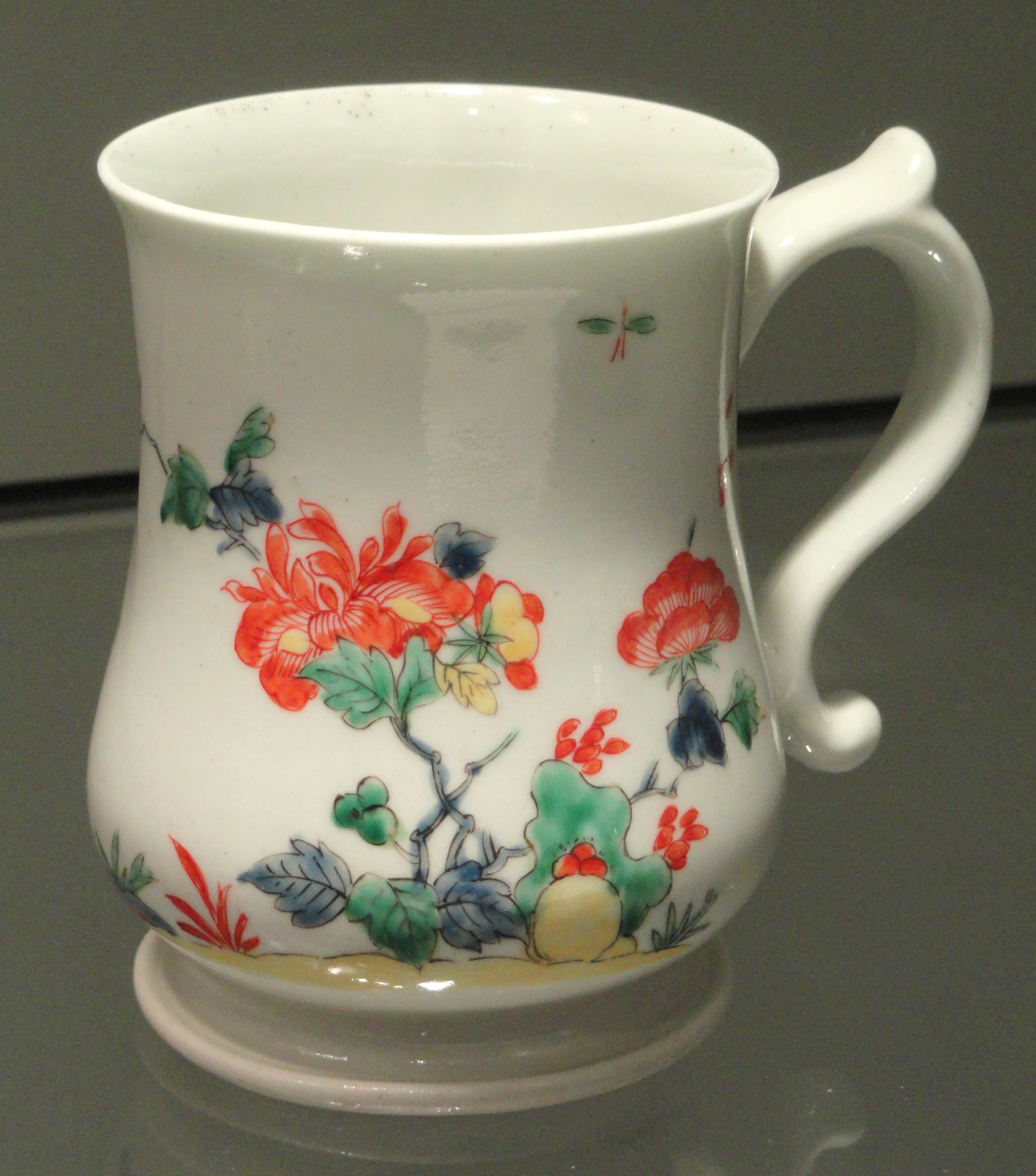 Exhibit in the Gardiner Museum, Toronto, Ontario, Canada. This artwork is in the public domain because the artist died more than 70 years ago.